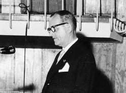 Photograph of the Swedish Count Harry Hamilton (1899–1998) giving a speech in Finland.